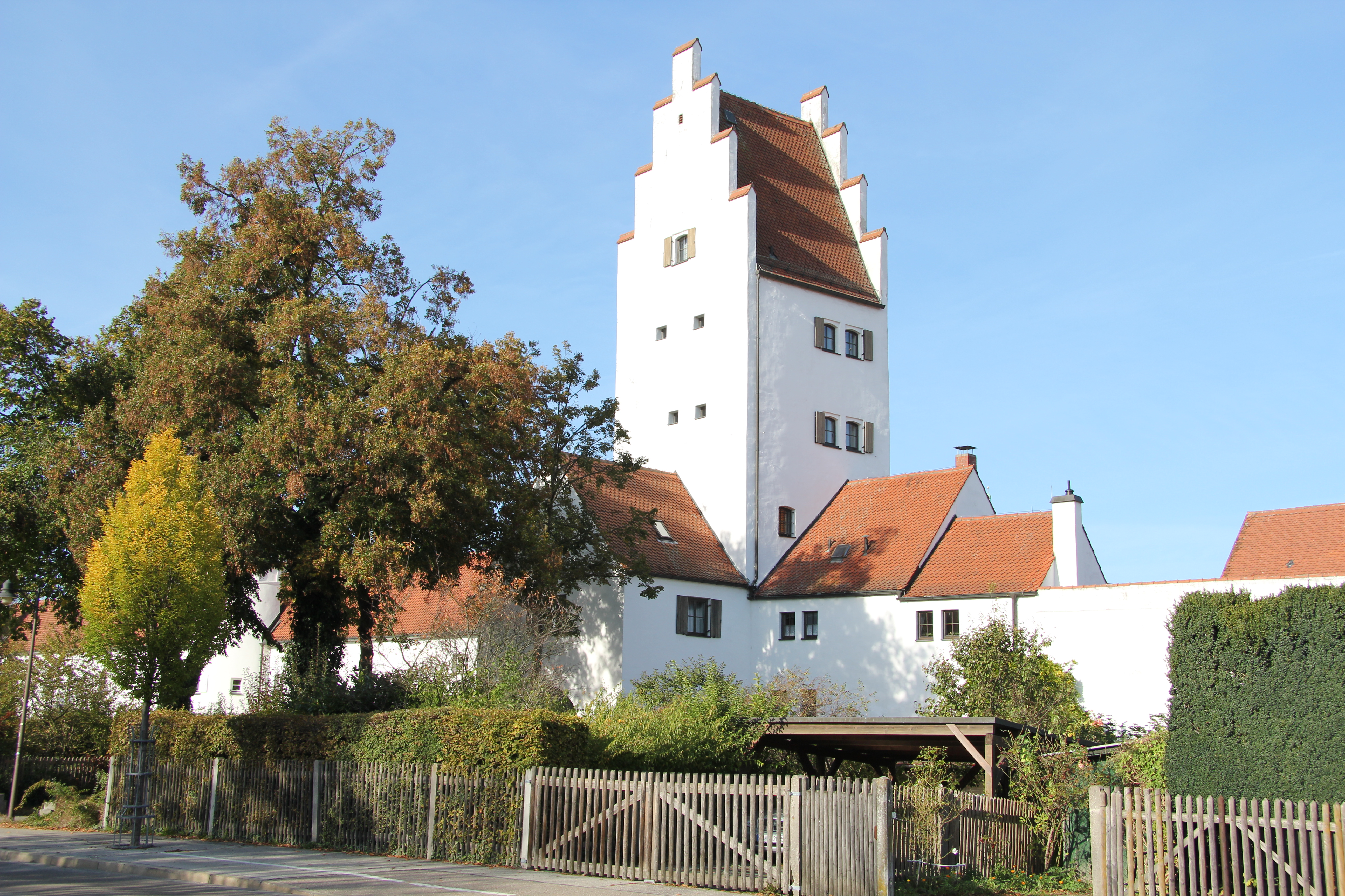 Ingolstadt, Taschenturm from south